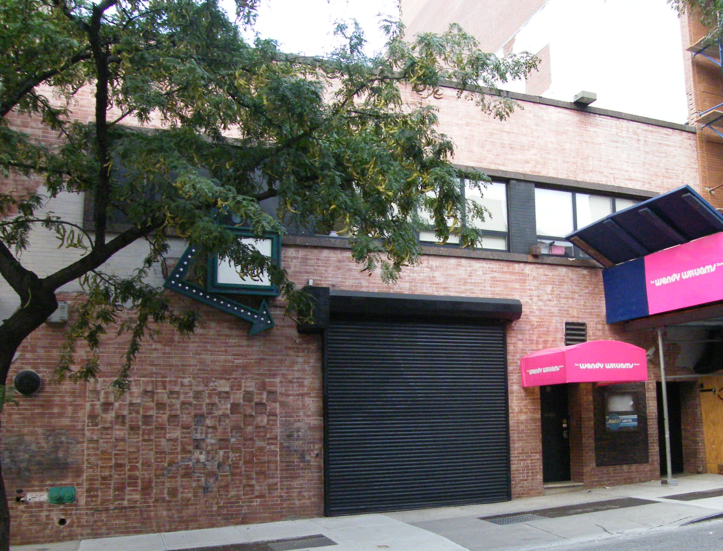 All Mobile Video 53rd Street (Manhattan) studio used by Wendy Williams